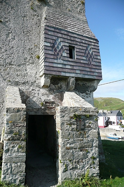 Granuaile's castle exterior This is the entrance to the castle, with steps just inside formerly leading up to the main accommodation on the first floor. The tiled portals were a much later addition.